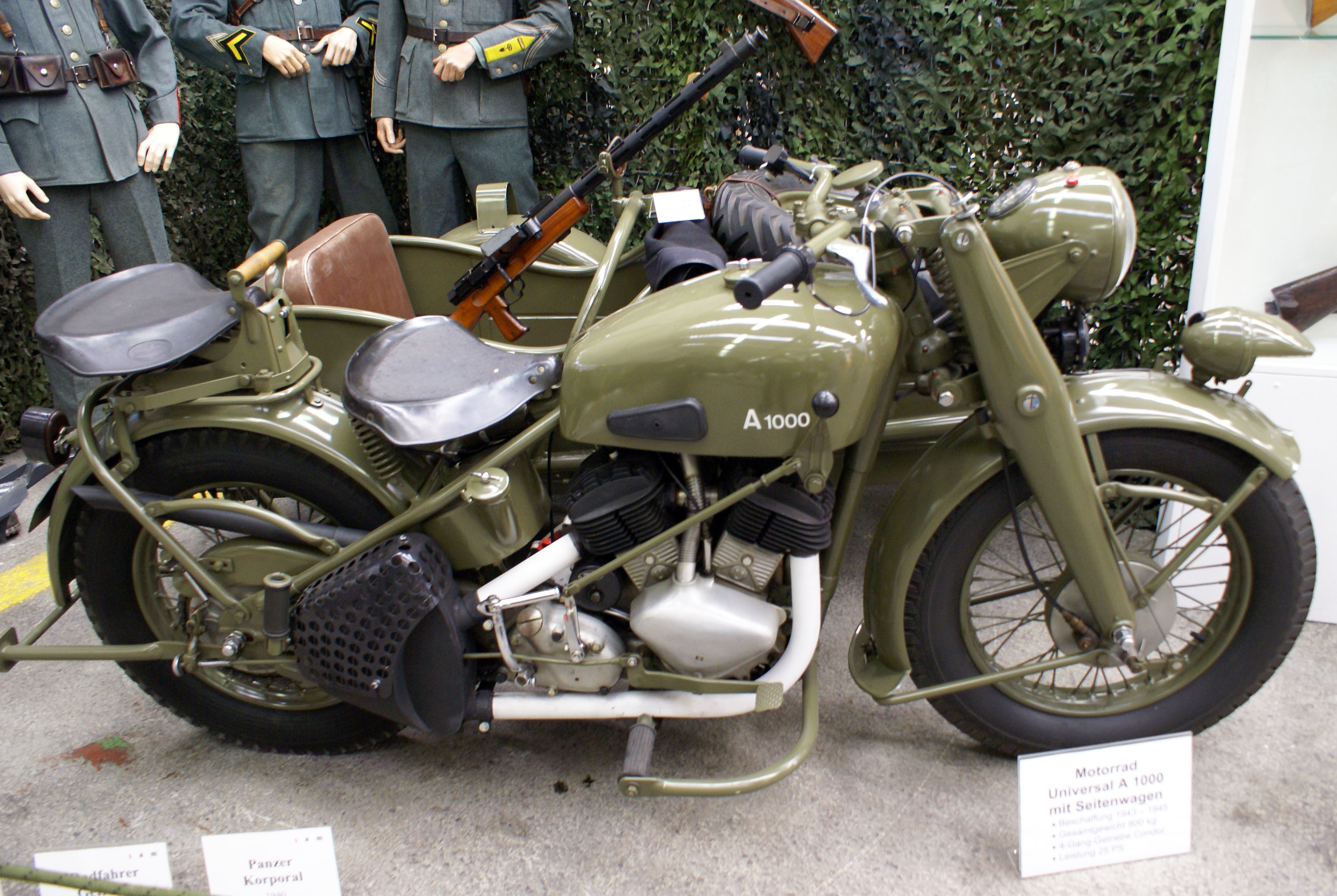 Swiss Army. Universal motorcycle A 1000 with sidecar. Swiss Army Museum.